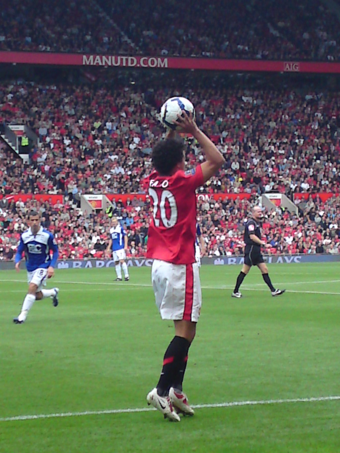 Fábio Pereira da Silva, Brazilian footballer born 1990, taking a throw-in for Manchester United against Birmingham City at Old Trafford, Manchester, on 16 August 2009